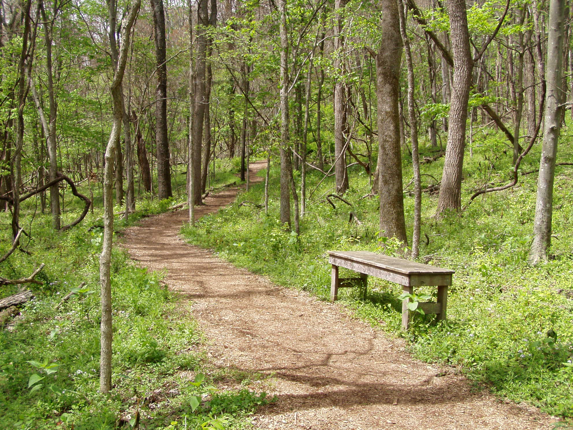 Trailhead at Radnor Lake State Park in Nashville, Tennessee.